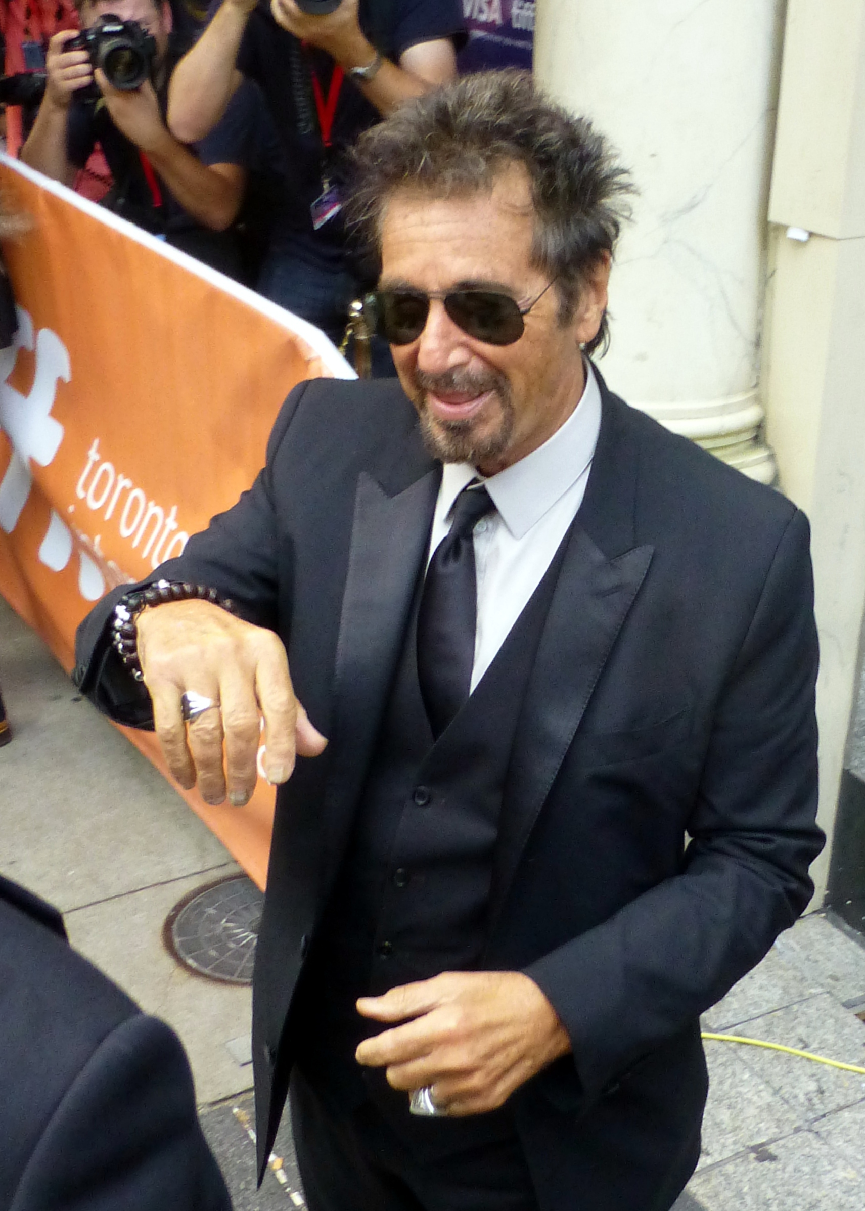 Al Pacino at the premiere of Manglehorn, 2014 Toronto Film Festival